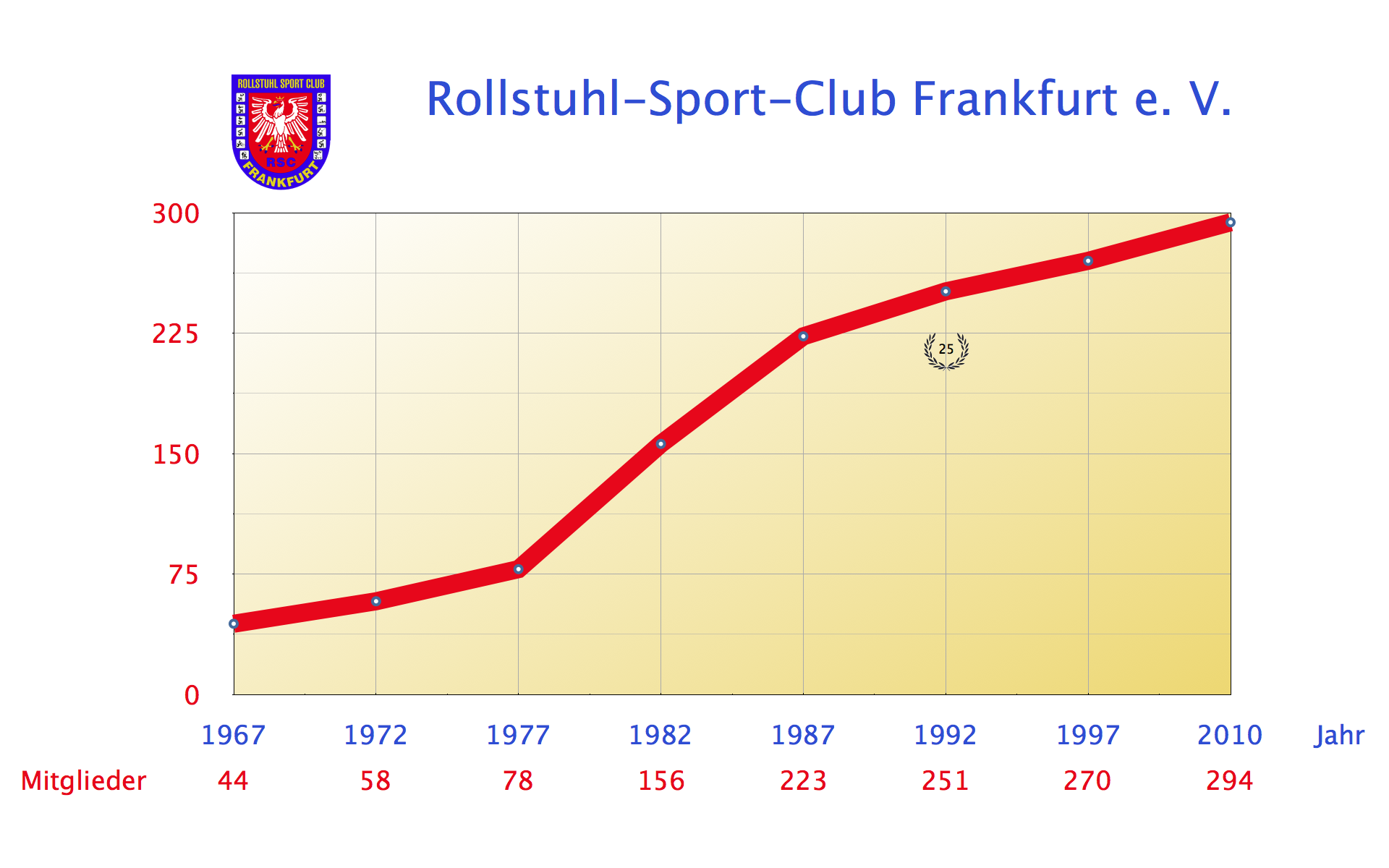 Membership statistics RSC Frankfurt, Frankfurt, Hesse, Germany